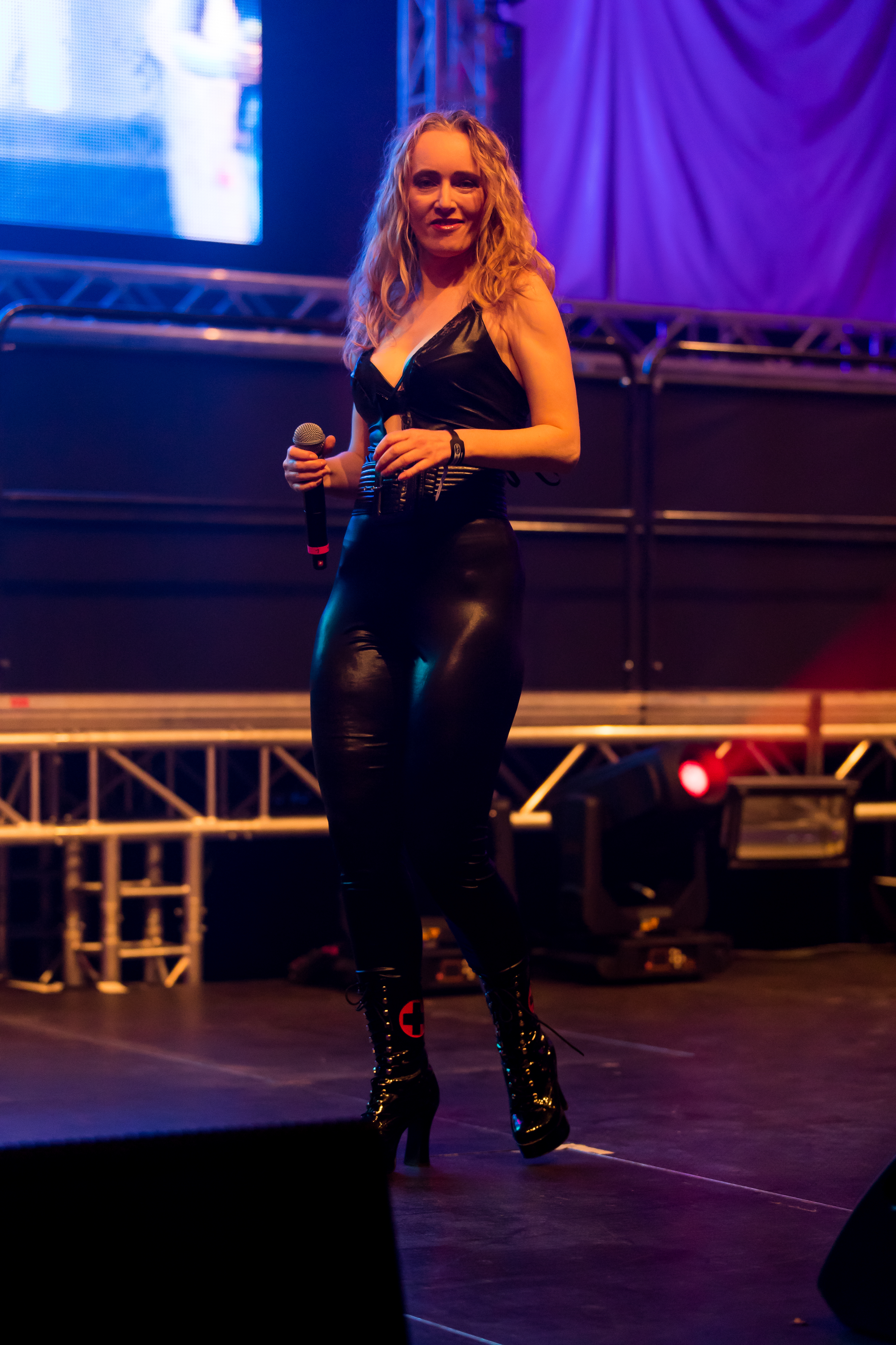 E-Rotic during Sunshine Live - 90er Live on Stage at Maimarkt Halle, Mannheim, Baden Württemberg, Germany on 2016-11-26, Photo: Sven Mandel DJ Falk, E-Rotic, Twenty 4 Seven, Rednex, Vengaboys, Masterbox feat. Beatrix Delgado, 2 Brother on the 4th Floor, 2 Unlimited, Interactive, Charly Lownoise, Marusha